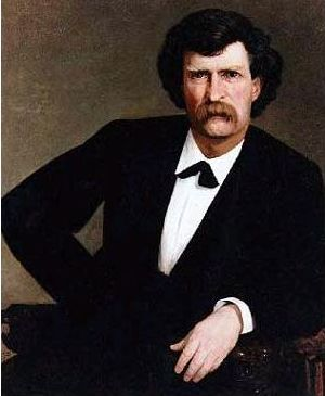 Millet's 1877 portrait of author Samuel L. Clemens (Mark Twain). Clara Clemens Gabrilowitsch donated the portrait to the Hannibal, Missouri Free Public Library.